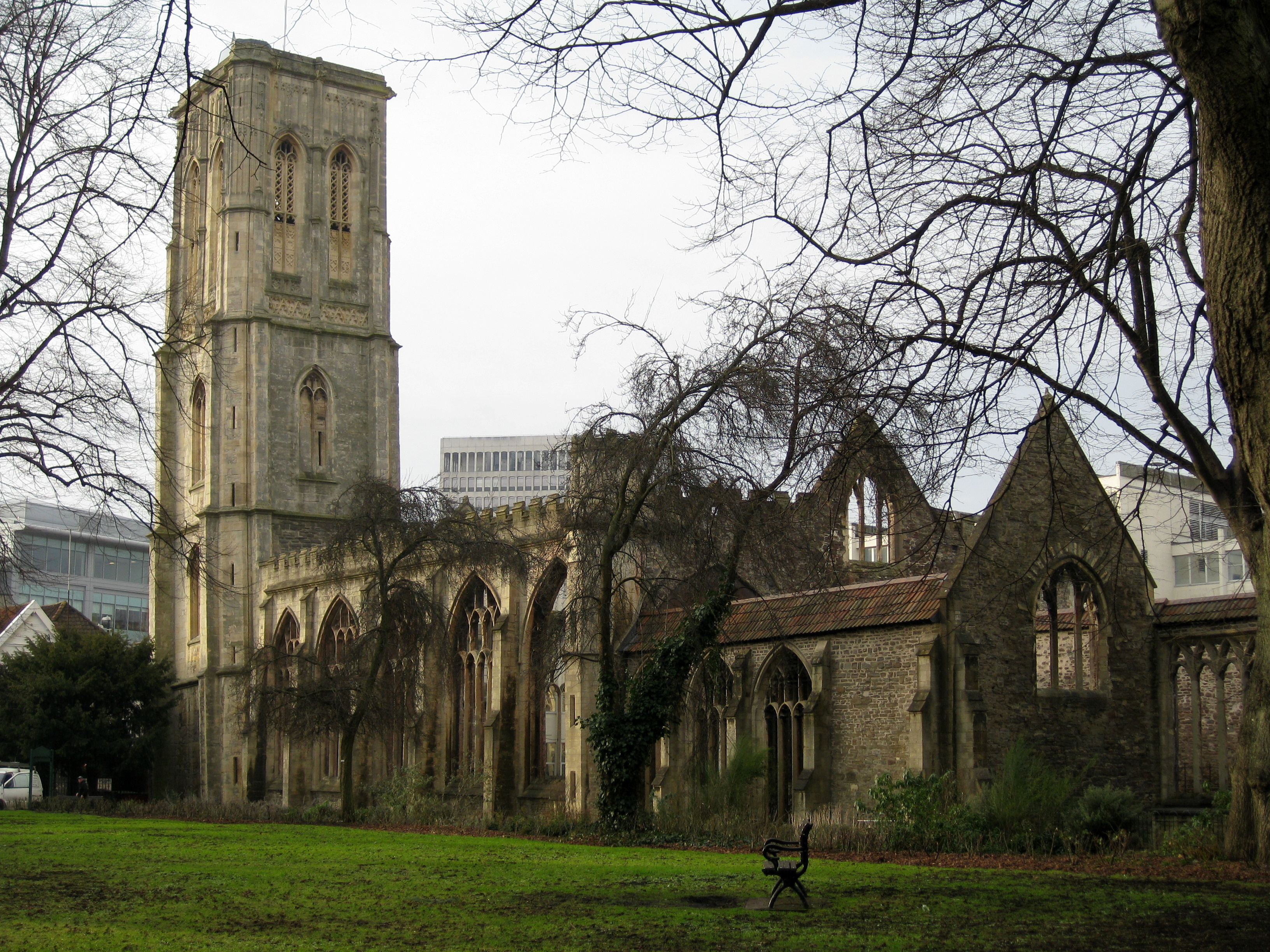 The ruin of Temple Church, Bristol